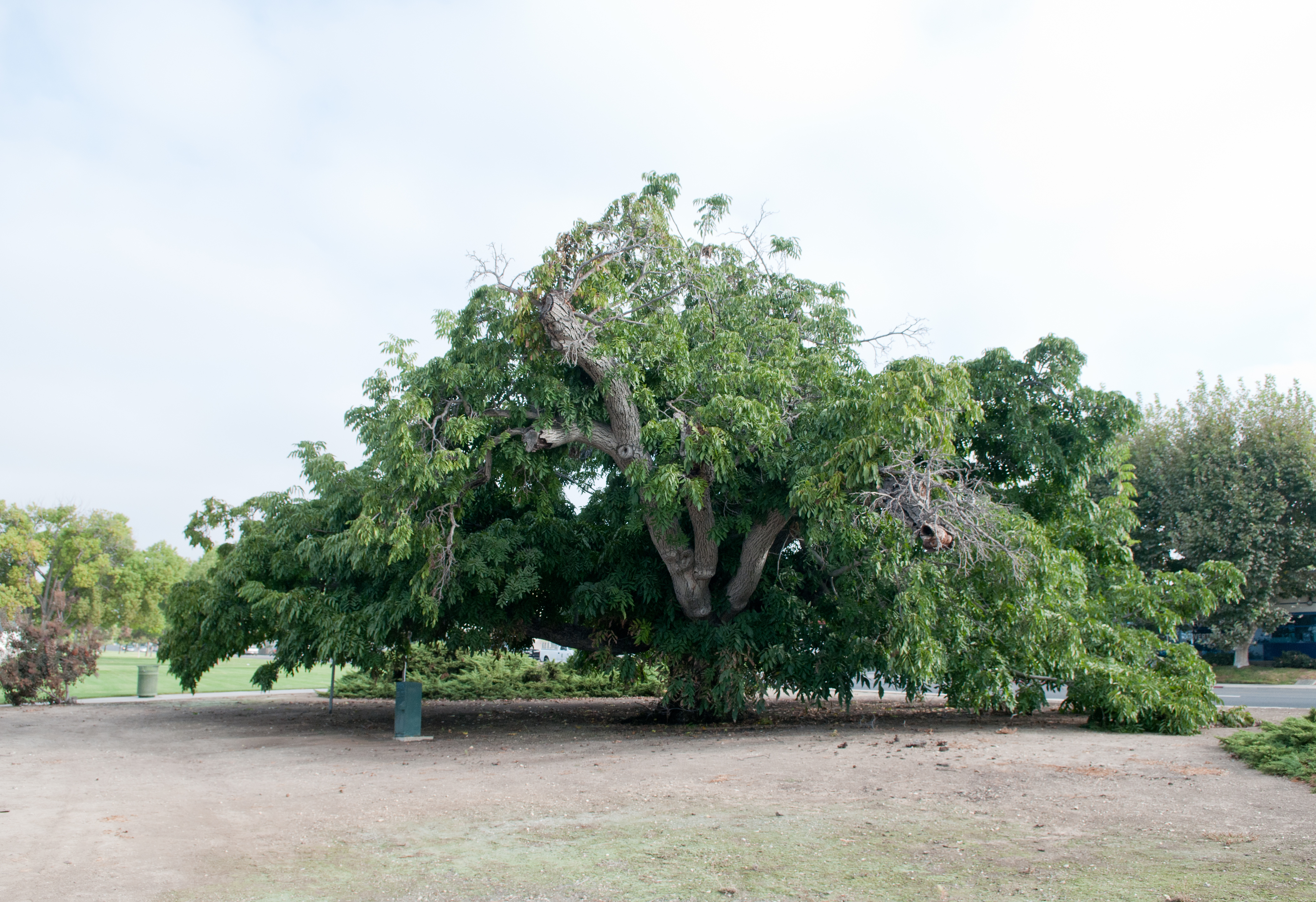 Paradox Hybrid Walnut Tree View Looking North